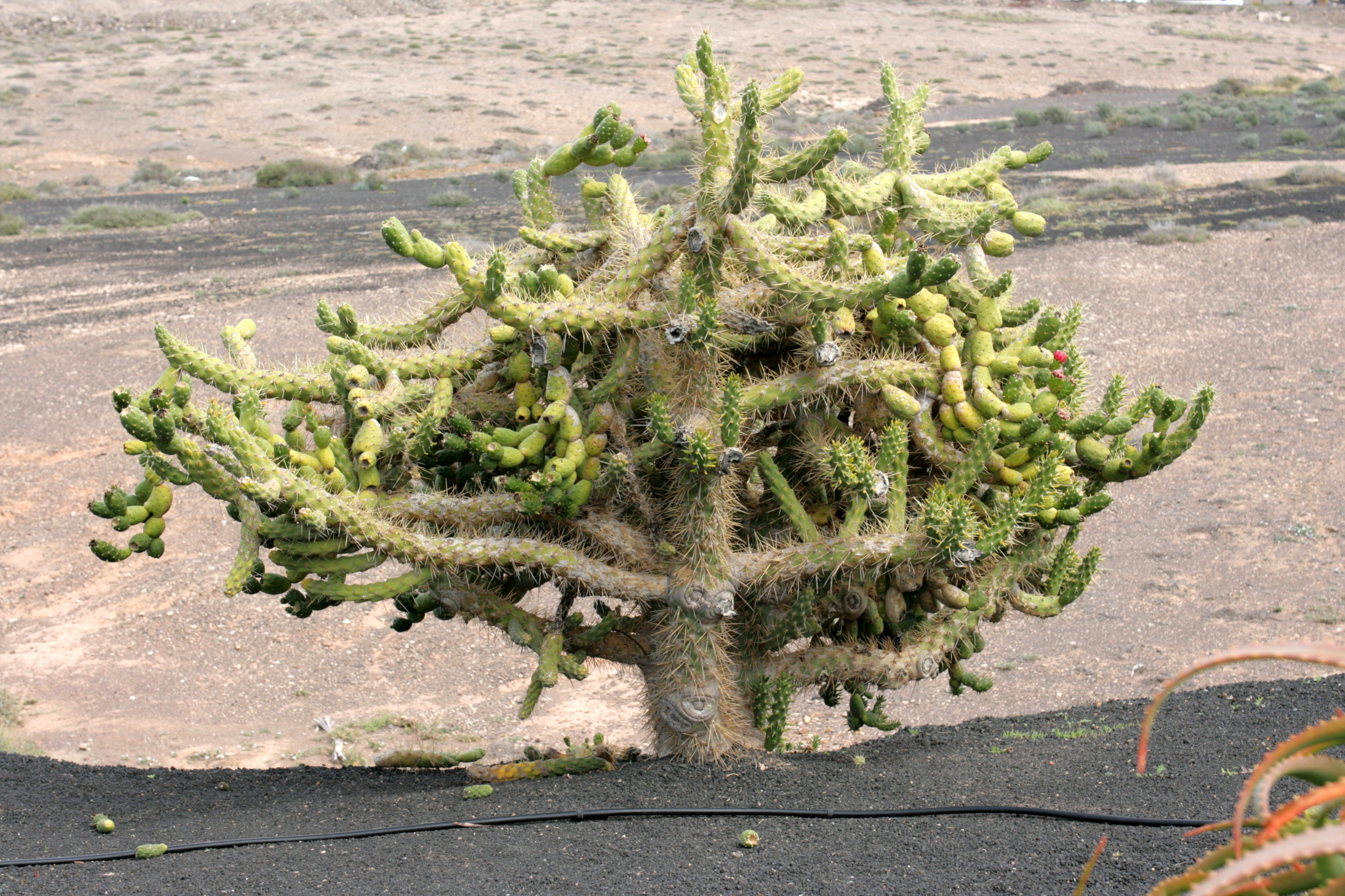 Austrocylindropuntia subulata grown at Calle La Calera in Playa Blanca, Yaiza, Lanzarote, Canary Islands